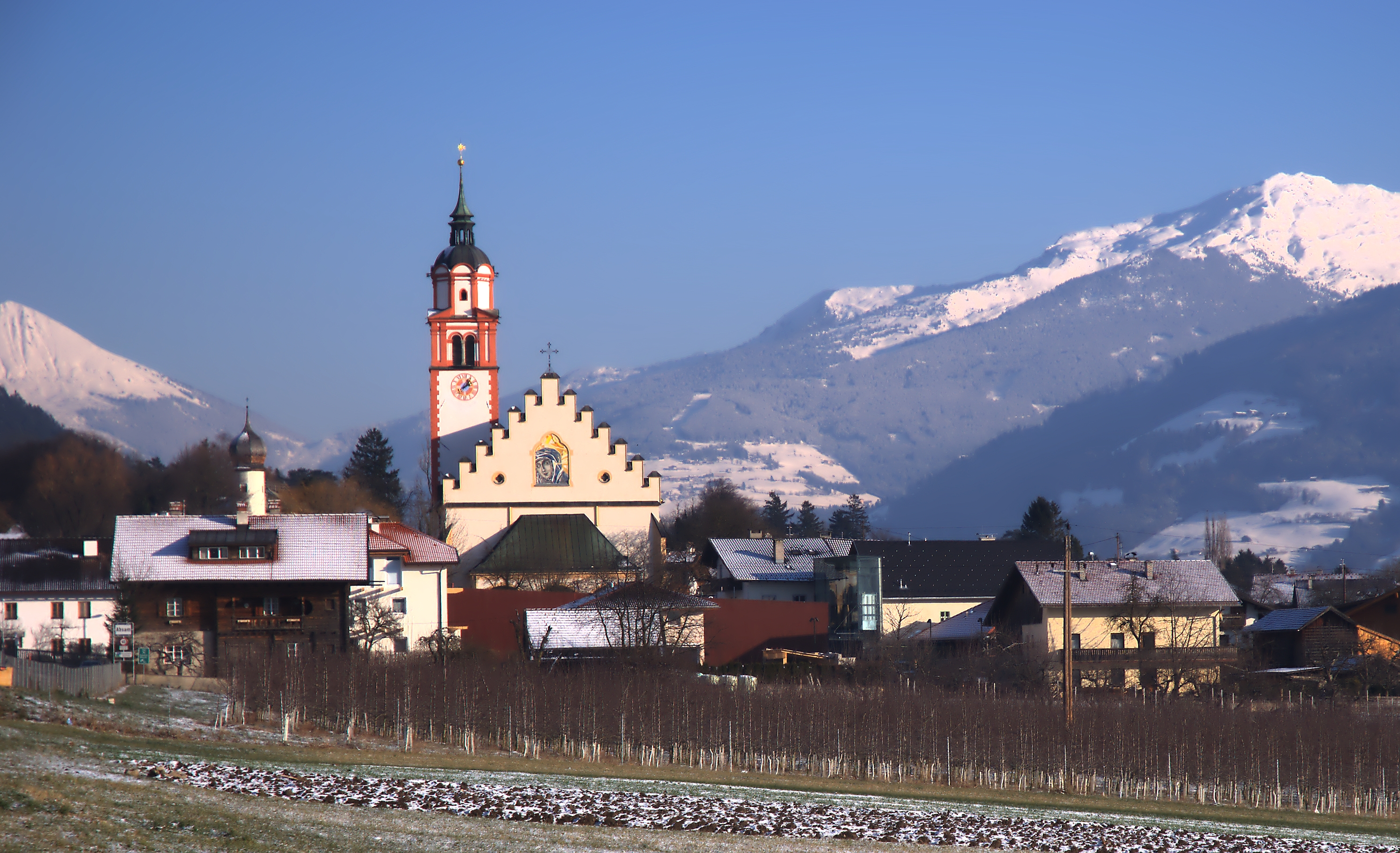 Absam from west with the Basilika, Tyrol